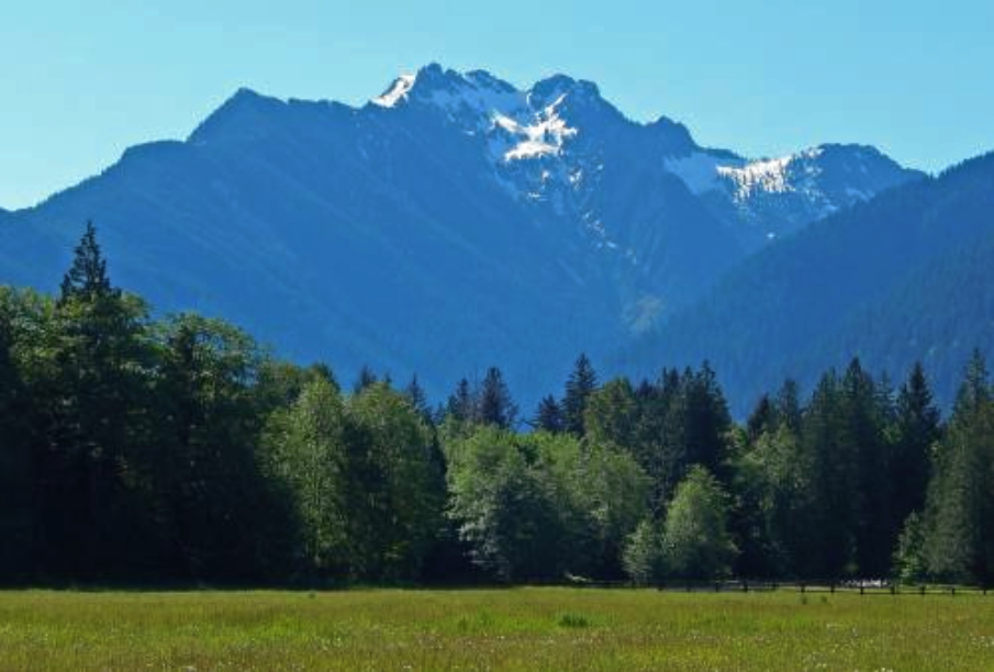 Jumbo Mountain seen from Highway 530 near Darrington, WA.